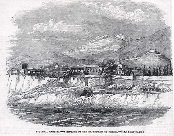 A woodcut engraving published in "The Illustrated London News". Circa 1880